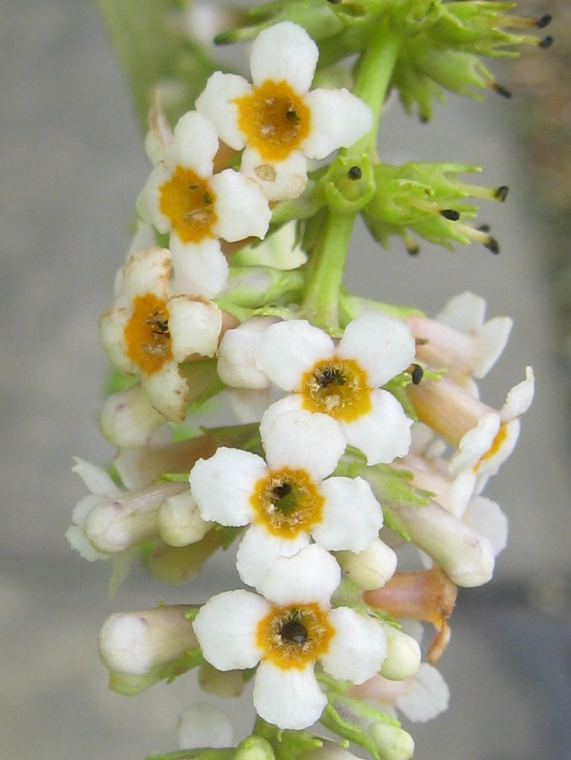 Close up photo of Buddleja forrestii flowers.